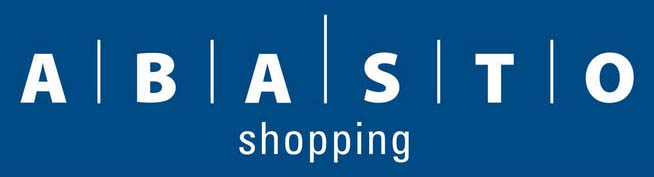 Logo of Argentine Abasto Shopping mall.